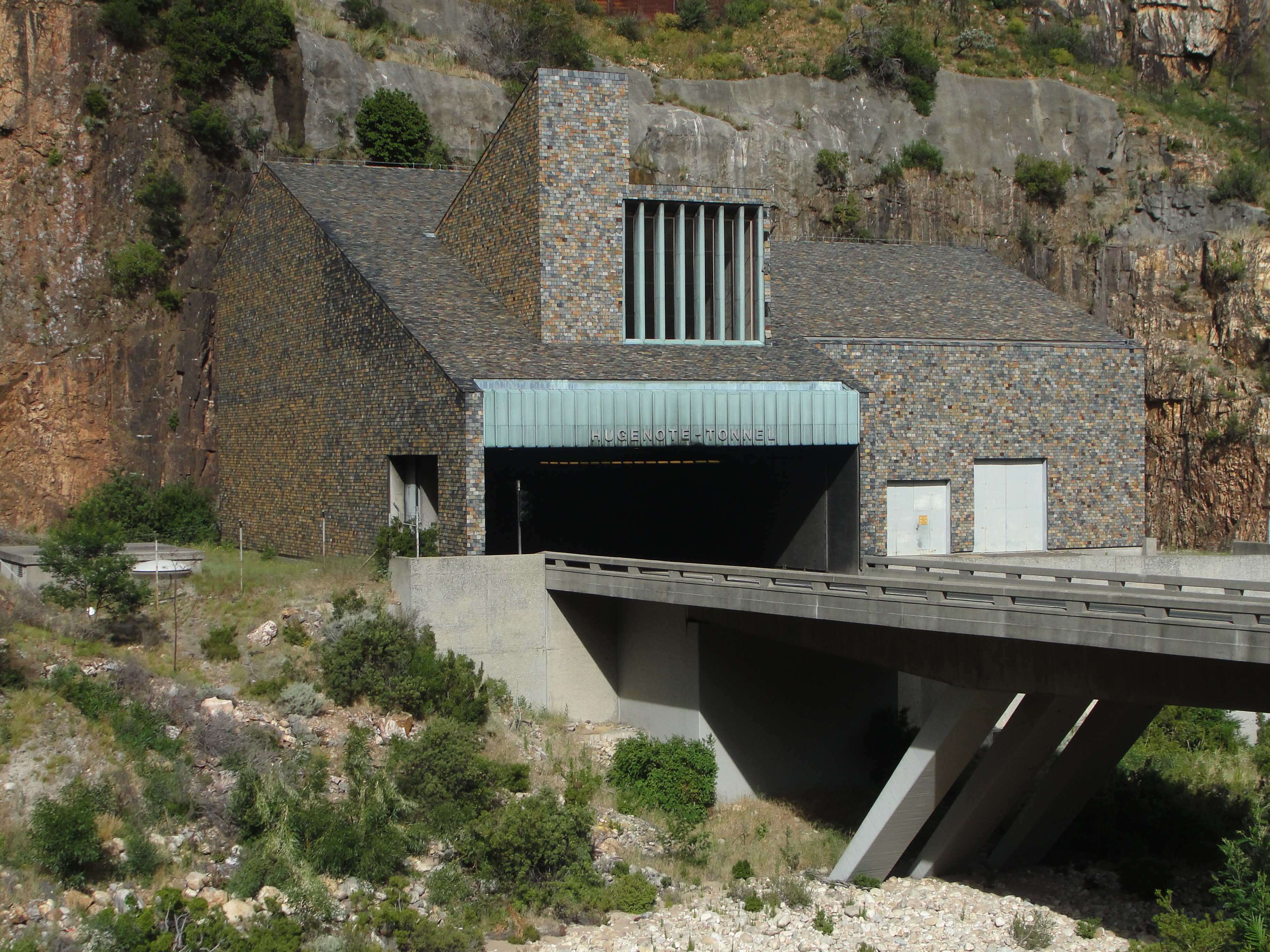 The northern entrance to the Huguenot Tunnel on the N1 highway in the Western Cape province of South Africa